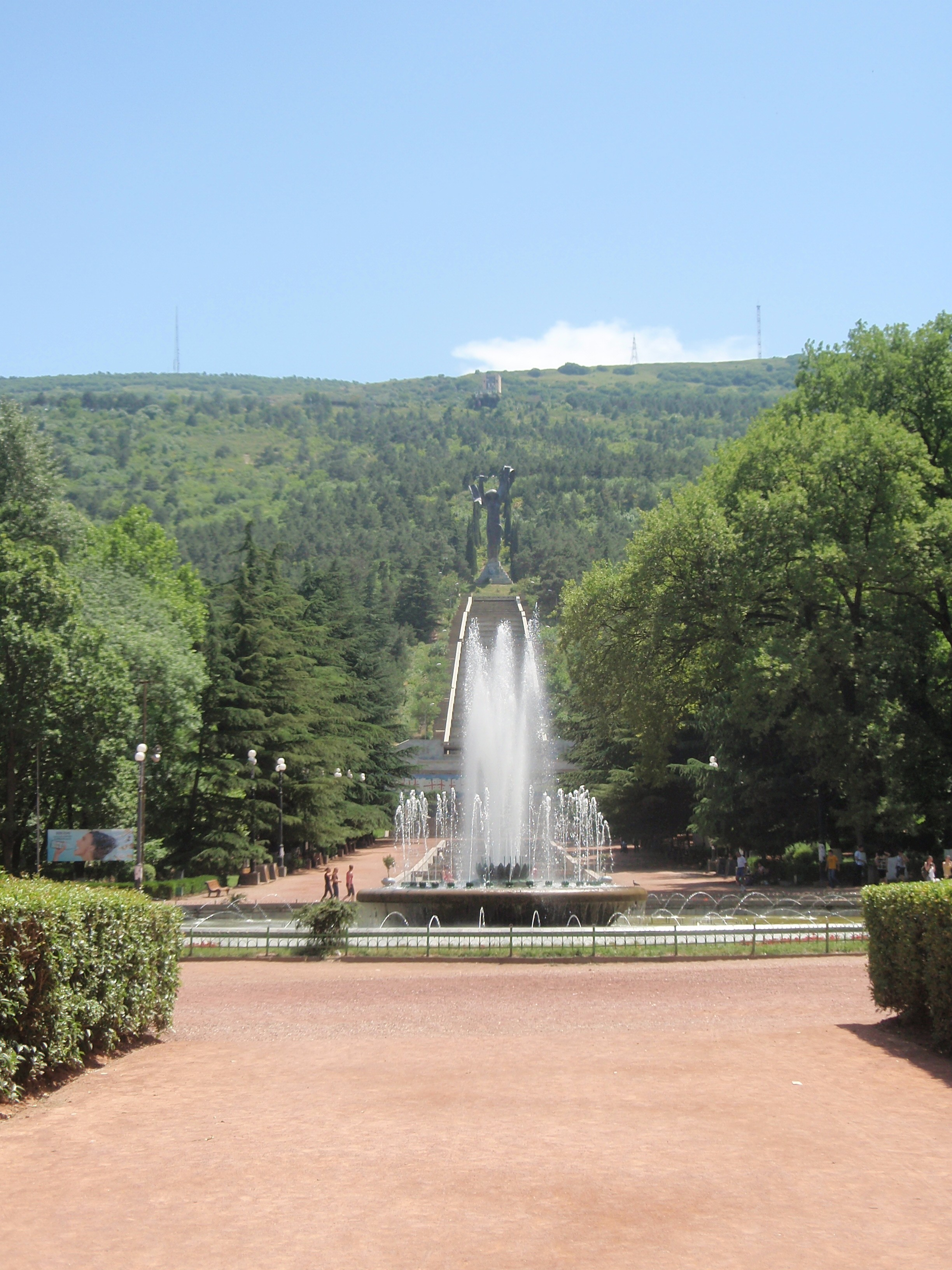 Vake Park in Tbilisi (Georgia)